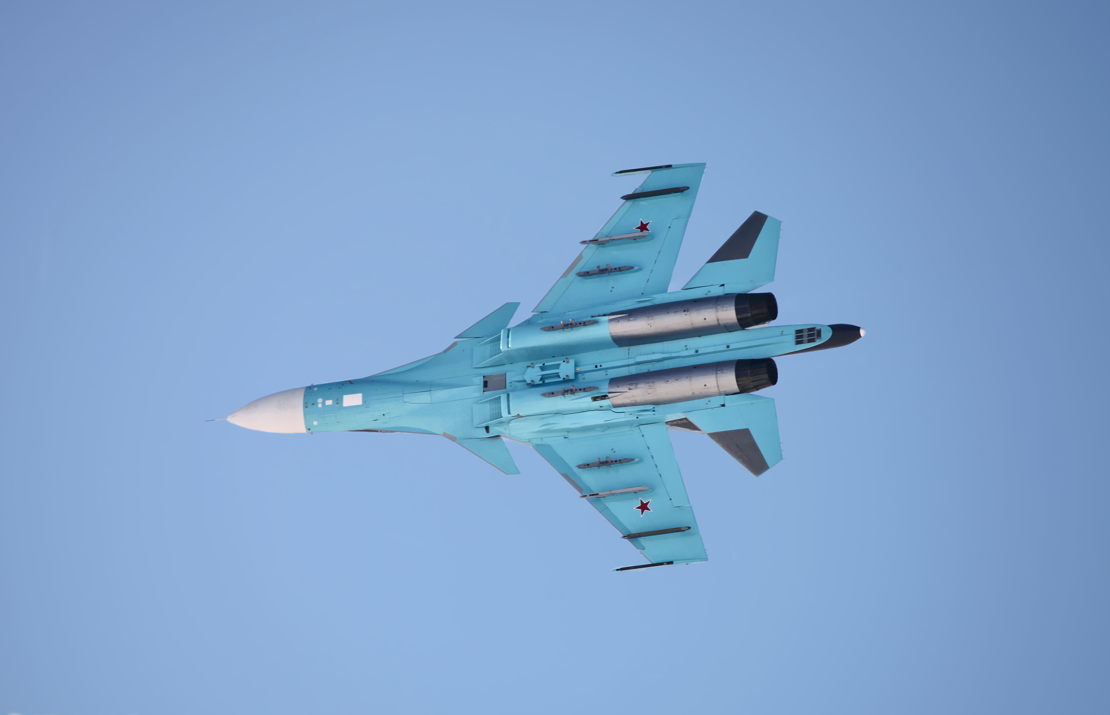 Sukhoi Su-34 fighter-bomber from Lipetsk airbase